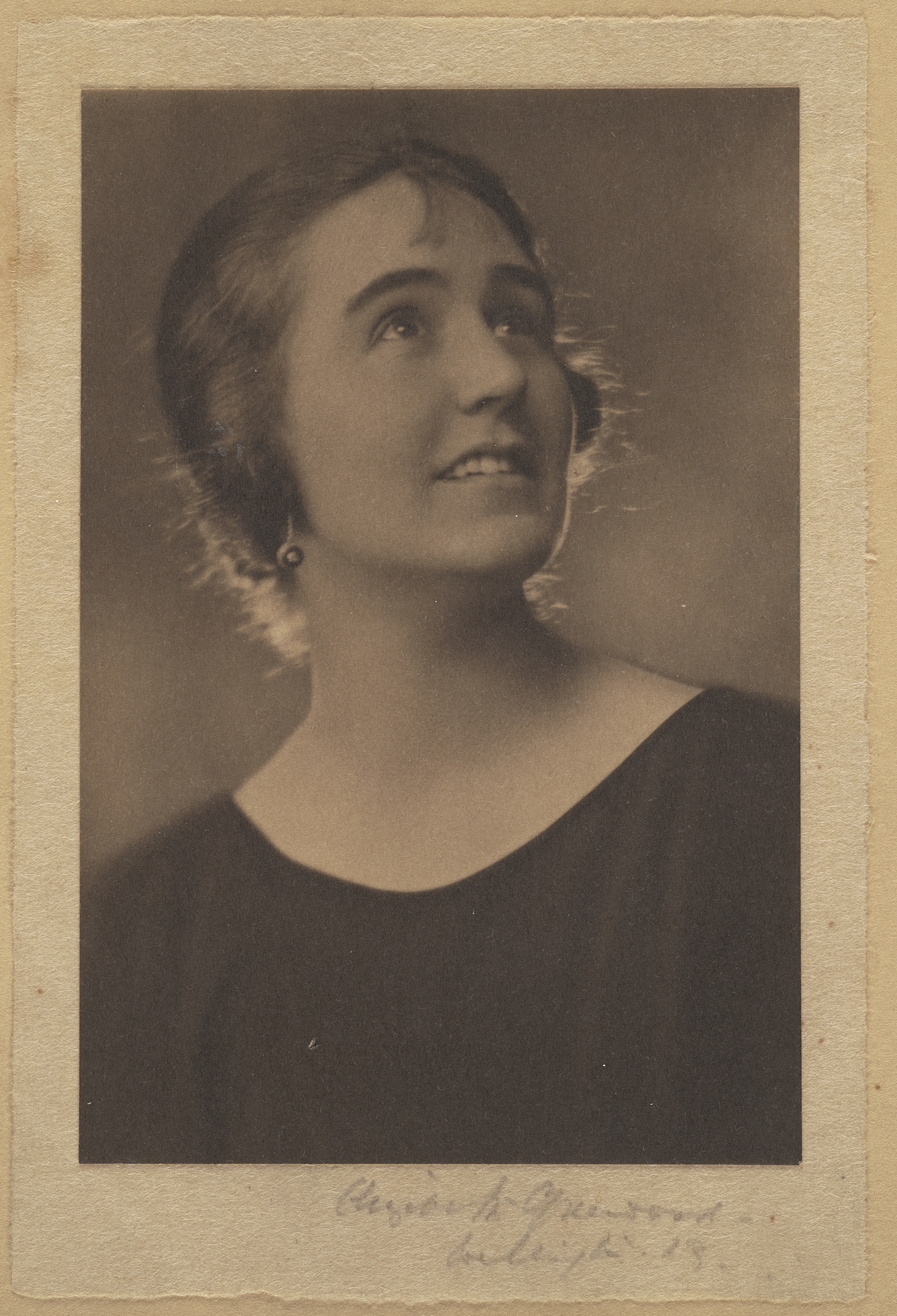 Portrait of a young woman, 1923, Wellington, by Elizabeth Greenwood. Purchased 1999 with New Zealand Lottery Grants Board funds. Te Papa (O.021007)